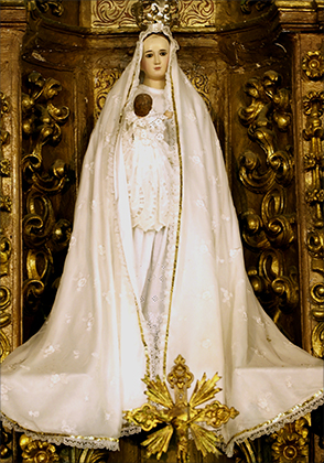 Imágen de la. Virgen Mª Nuesrtra Señora de los Remedios. Patrona de Soutochao ( fóto 1 )